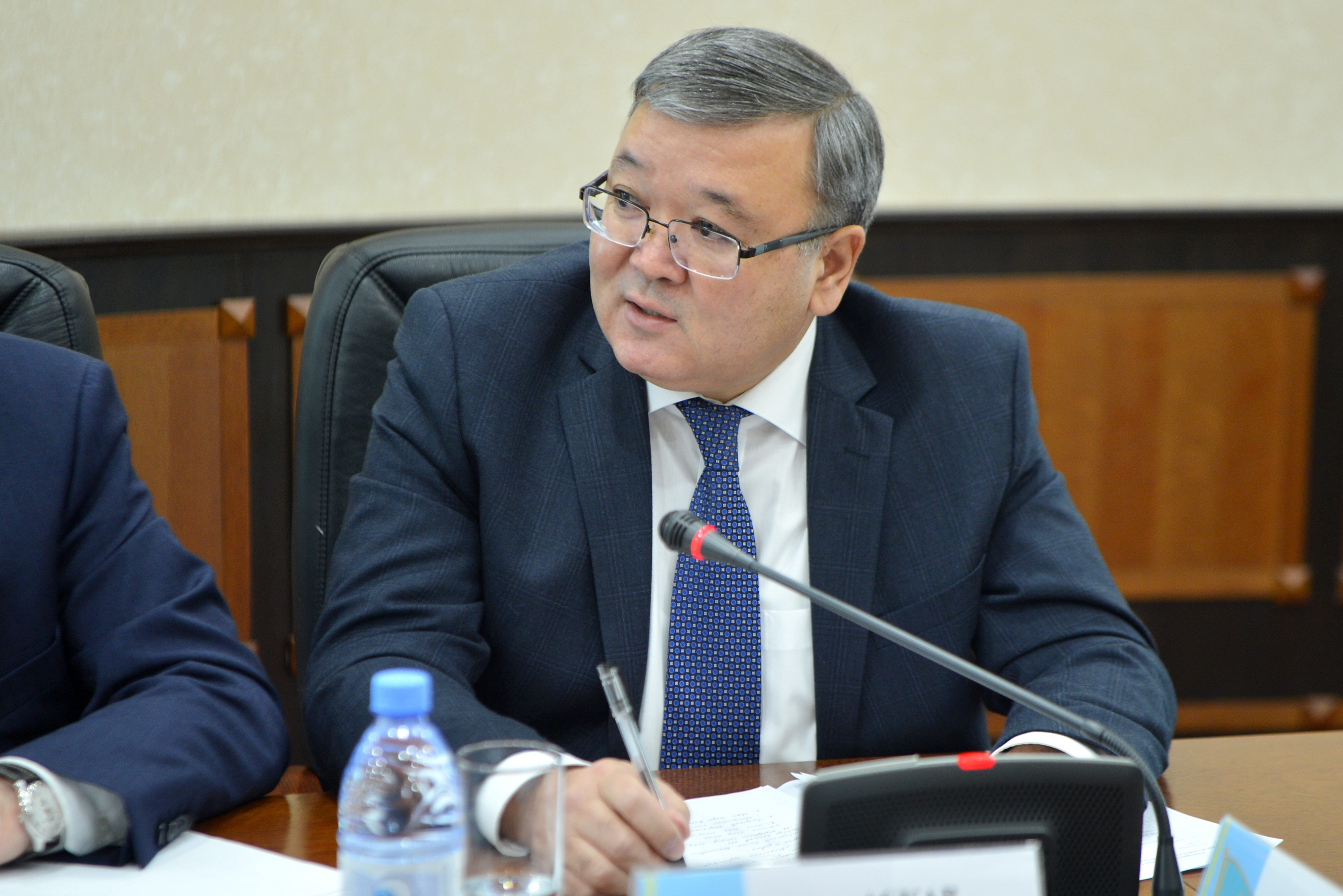 Askar Beisenbayev